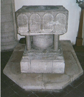 St Peters Church, Selsey. Font dating from 12th Century